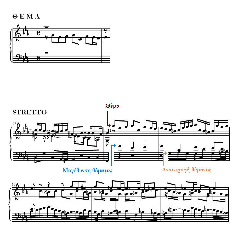 Fuga2 Thema &S tretto